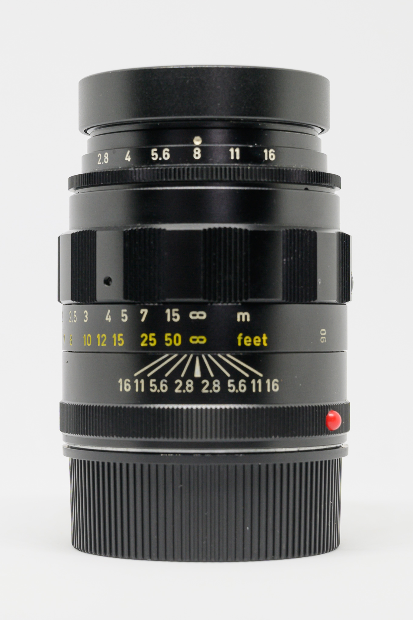 Leica 90mm f-2.8 Tele-Elmarit-M (1969) Black Rangefinder lens